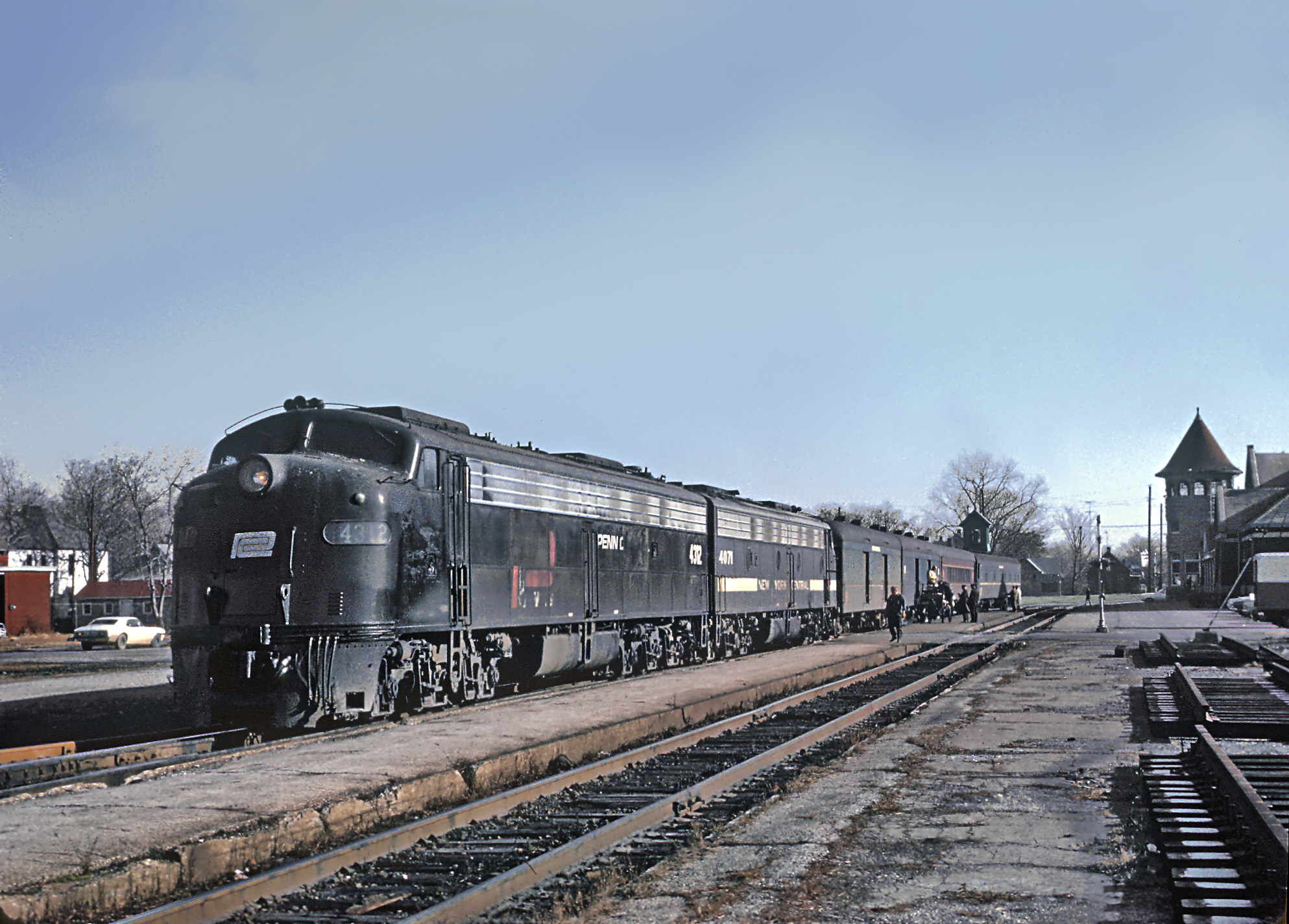 PC 4312 (E8A) with Train 31, The Spirit of St. Louis, at Terre Haute, IN on December 14, 1970.